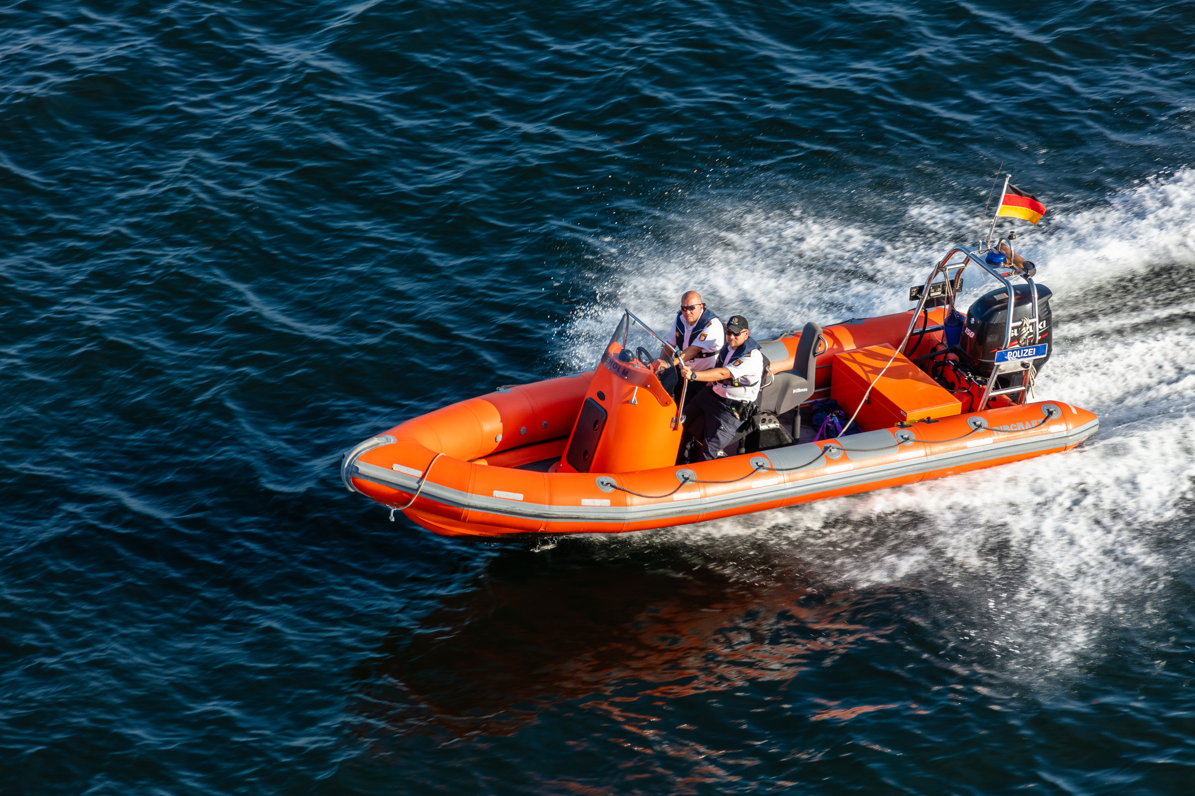 Police boat, Kiel, Germany